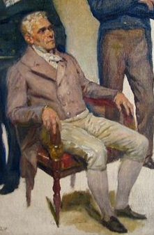 Study of human figures for the painting "The Constituent Courts of 1821", by Veloso Salgado. Detail of the Count of Sampaio (middle-aged, with white hair and shaven face, sitting on an armchair, with his arms on the arms of the chair, in three-quarters view to the right, wearing a pastel-coloured coat and breeches).